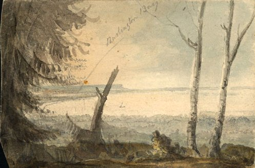 Burlington Bay on Lake Ontario.